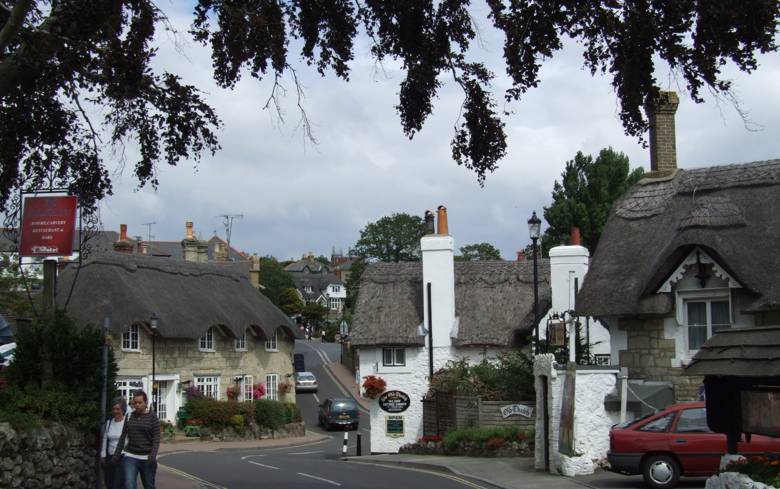 Shanklin old village, Island of Wight, UNITED KINGDOM